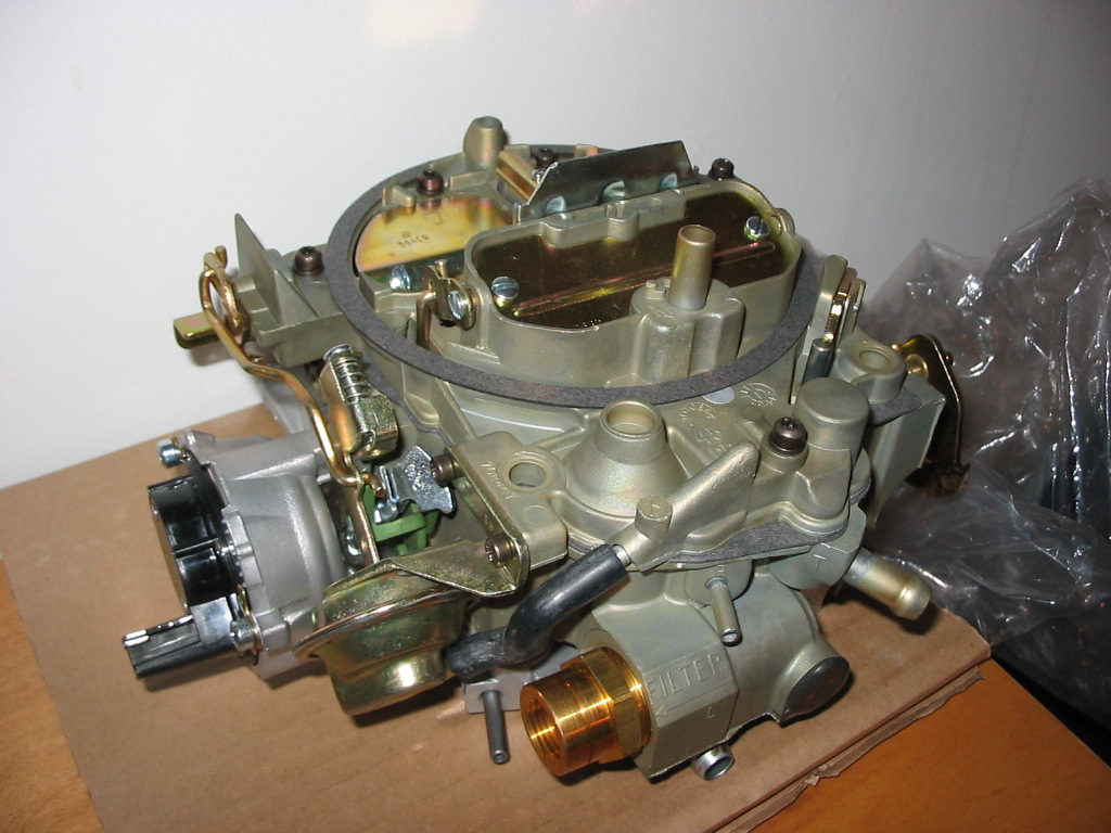 1982 Rochester Quadrajet carb. It is an M4ME model, which is the later casting, and has an electric choke. This is my carb taken with my camera, so there are no fair use issues here.